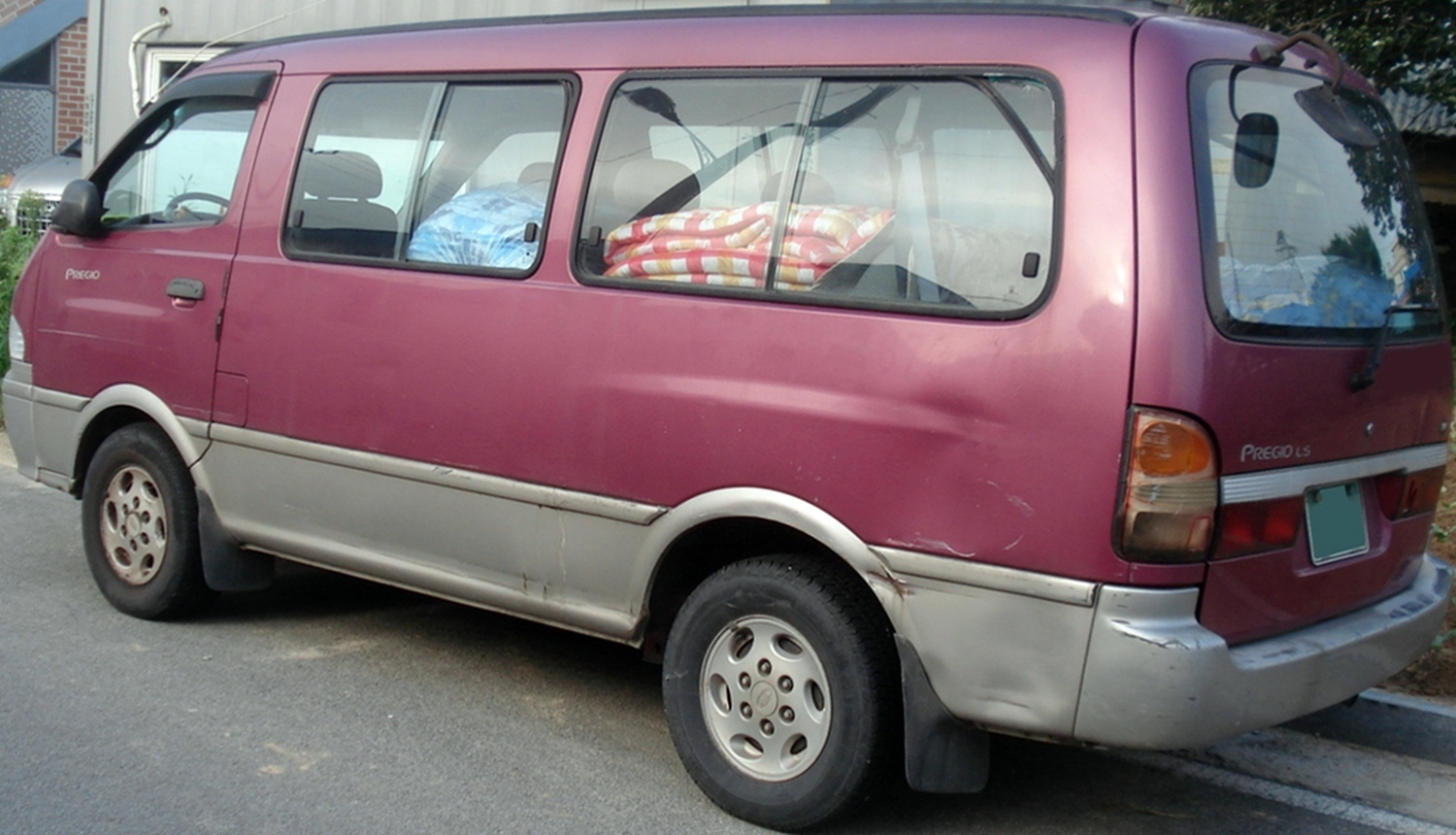 Kia Pregio